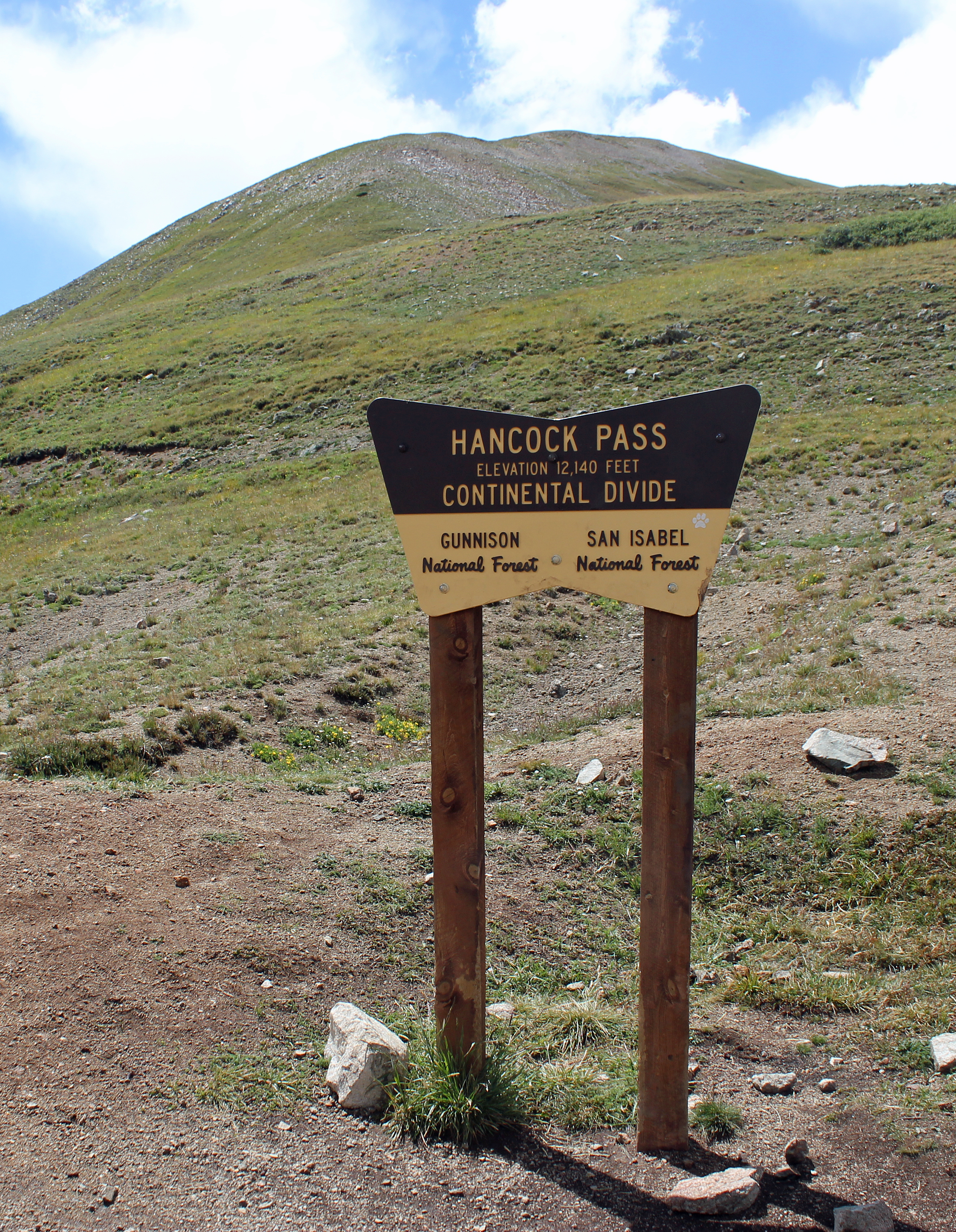 Hancock Pass in Colorado. The pass is on the Continental Divide and also on the border between Chaffee and Gunnison counties in Colorado.